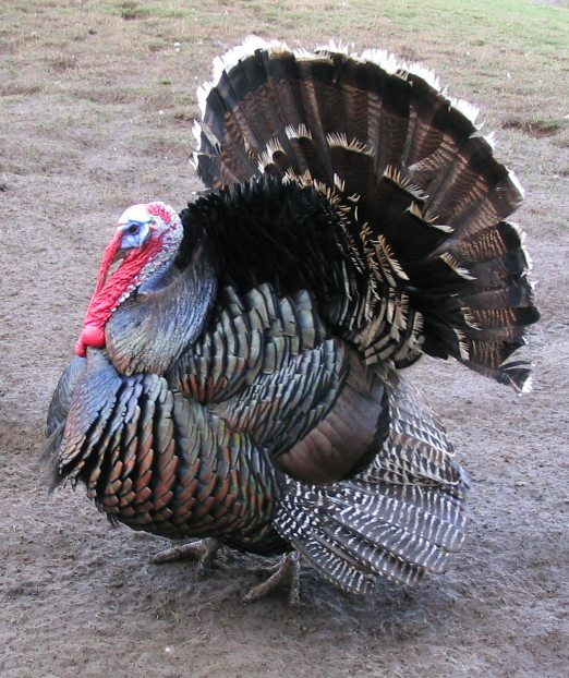 Male North American turkey.